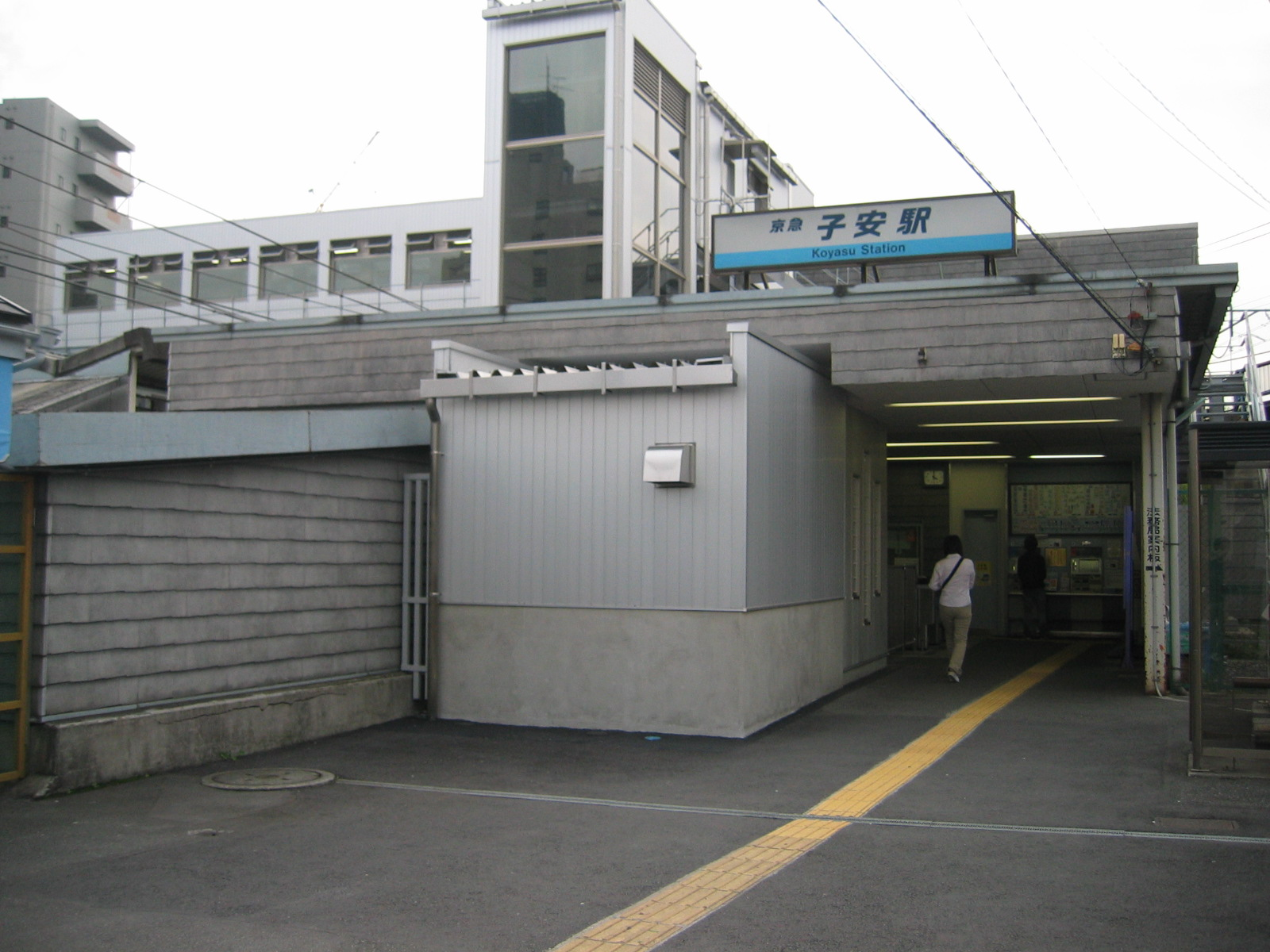 Keikyu Main Line, Koyasu Station (Kanagawa, Japan)